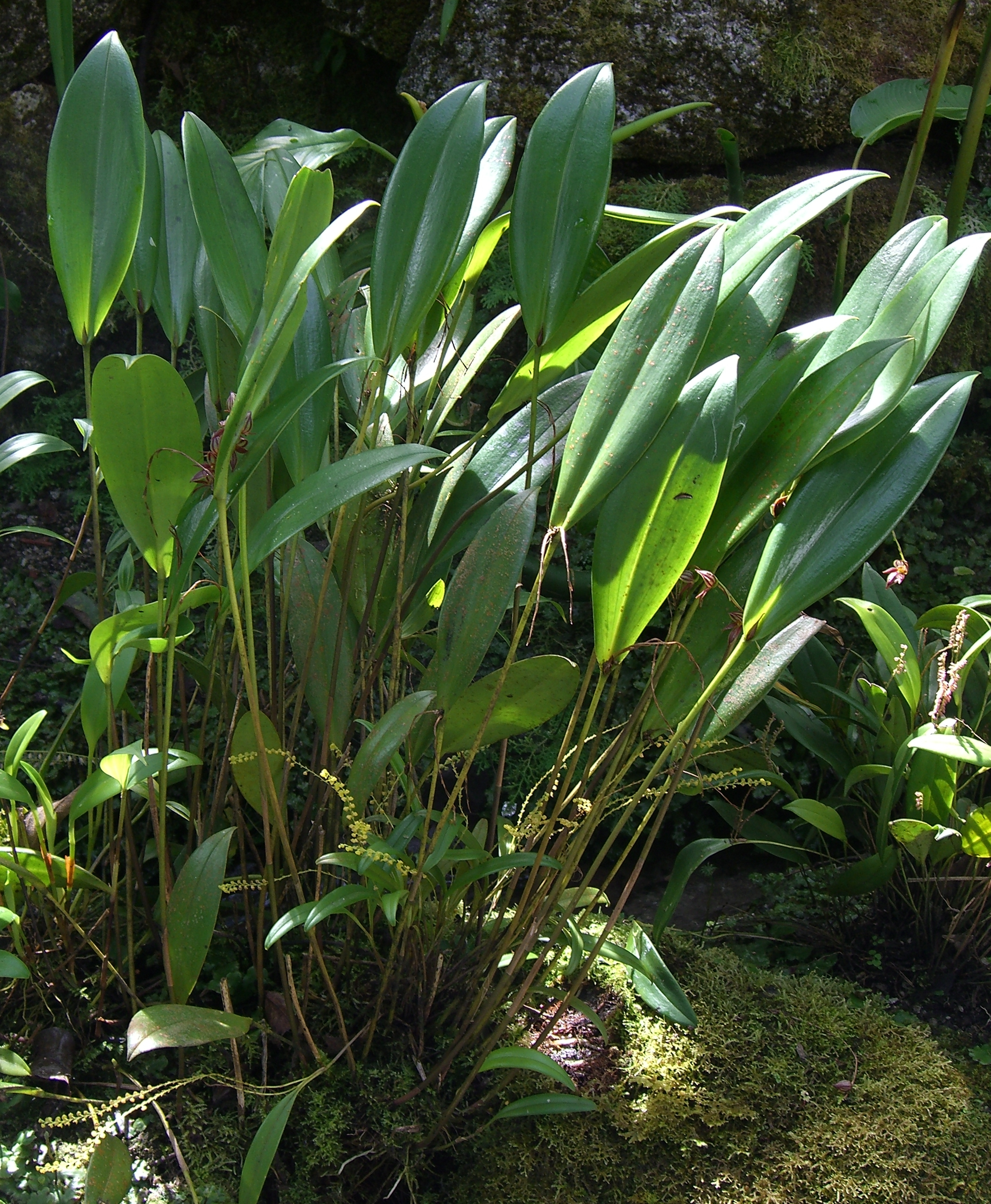 Please report references to .